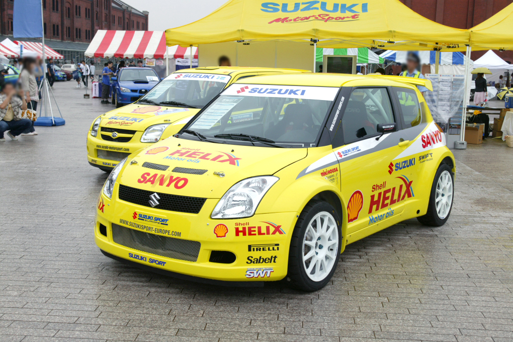 Suzuki Swift JWRC 05 at The Spirit of Rally 2005.